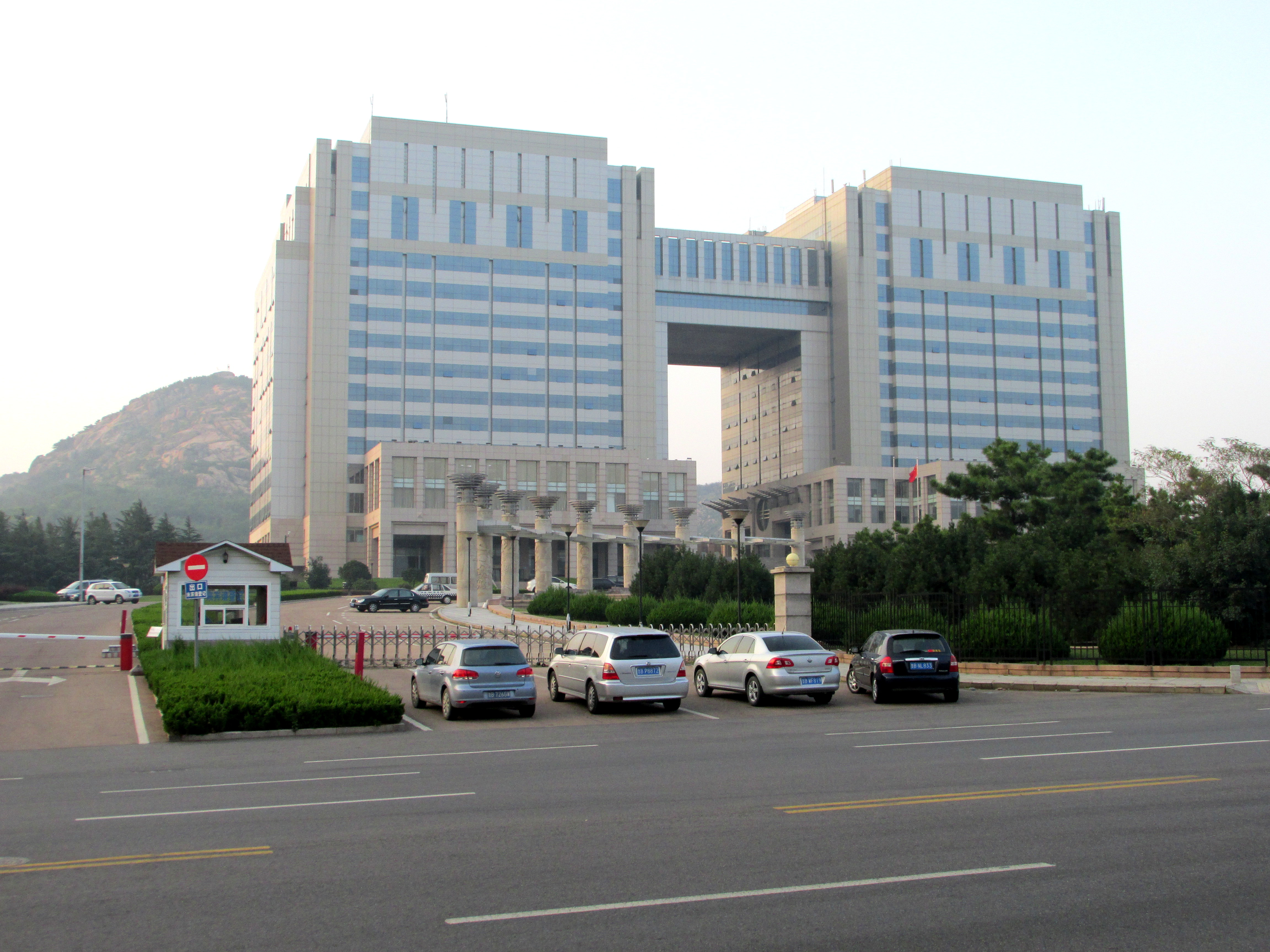 Main building of the Laoshan district government